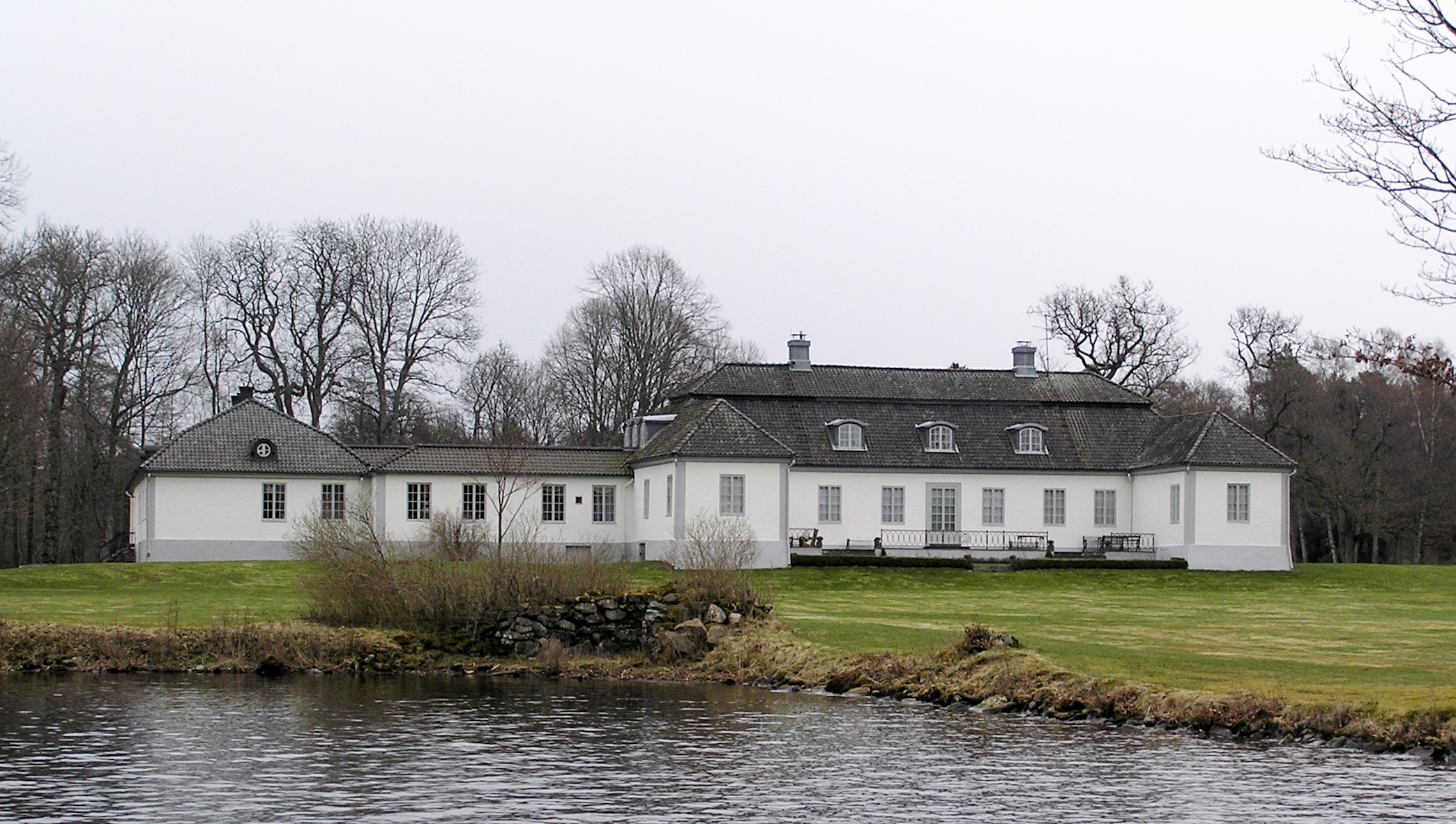 Rössjöholm castle in Skåne, southern Sweden.